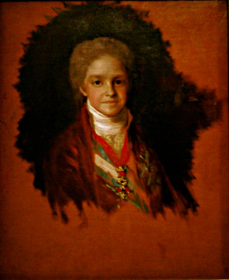 Portrait of the Infant Carlos María Isidro of Spain (1788-1855)